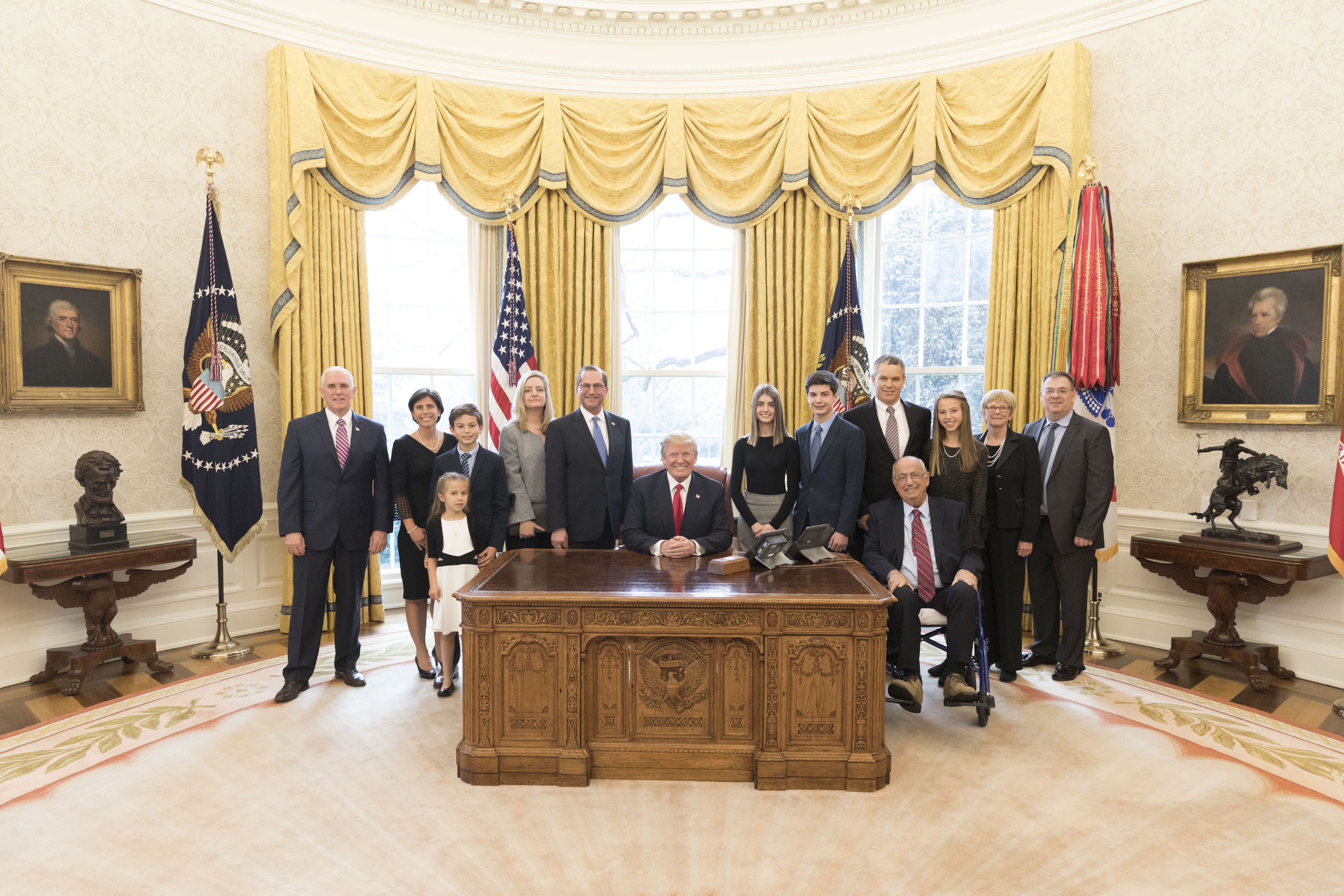 President Donald J. Trump and Vice President Mike Pence with newly sworn-in U.S. Secretary of Health and Human Services Alex Azar and members of his family